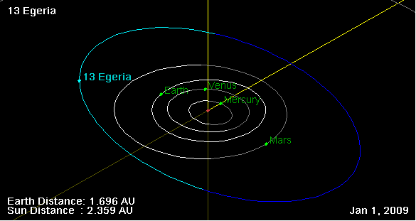 13 Egeria orbit, and his position on 01 Jan 2009 (NASA Orbit Viewer applet)